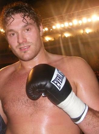 A picture with Tyson Fury after his pro debut in Nottingham (December 2008).